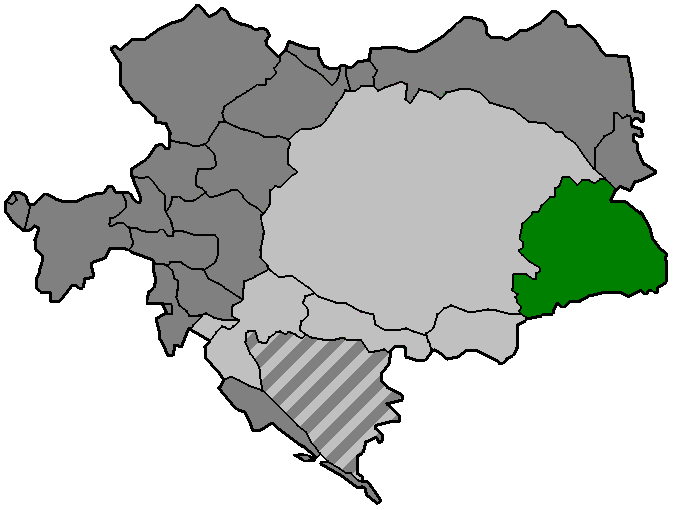 Map of Austria-Hungary